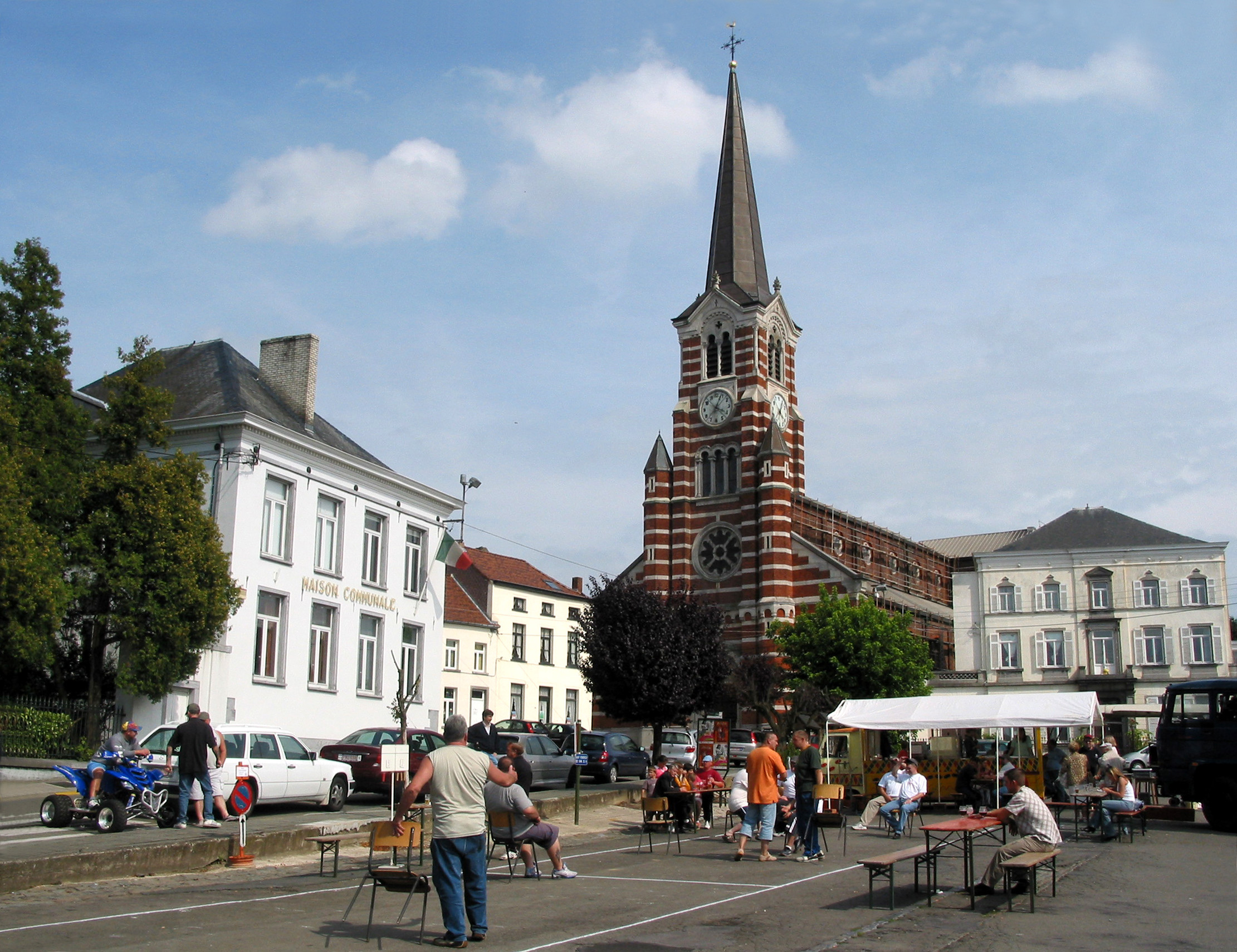 Rebecq (Belgium), Sitting ball game on the Grand'Place.